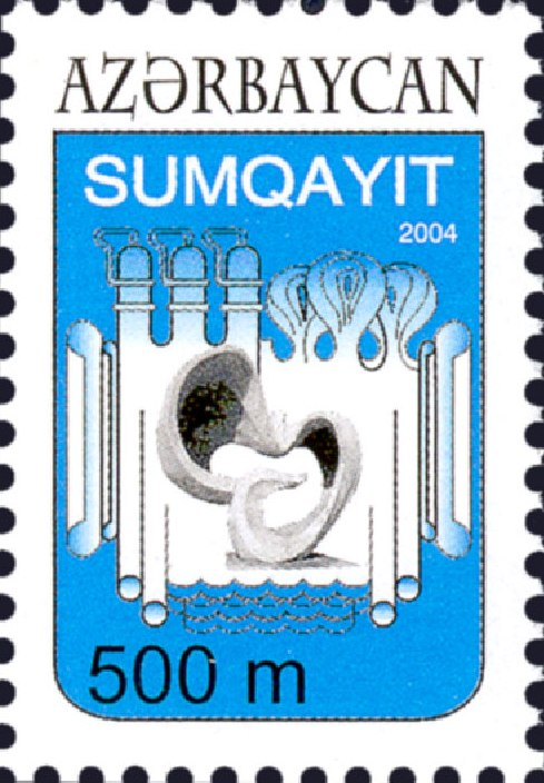 Stamp of Azerbaijan